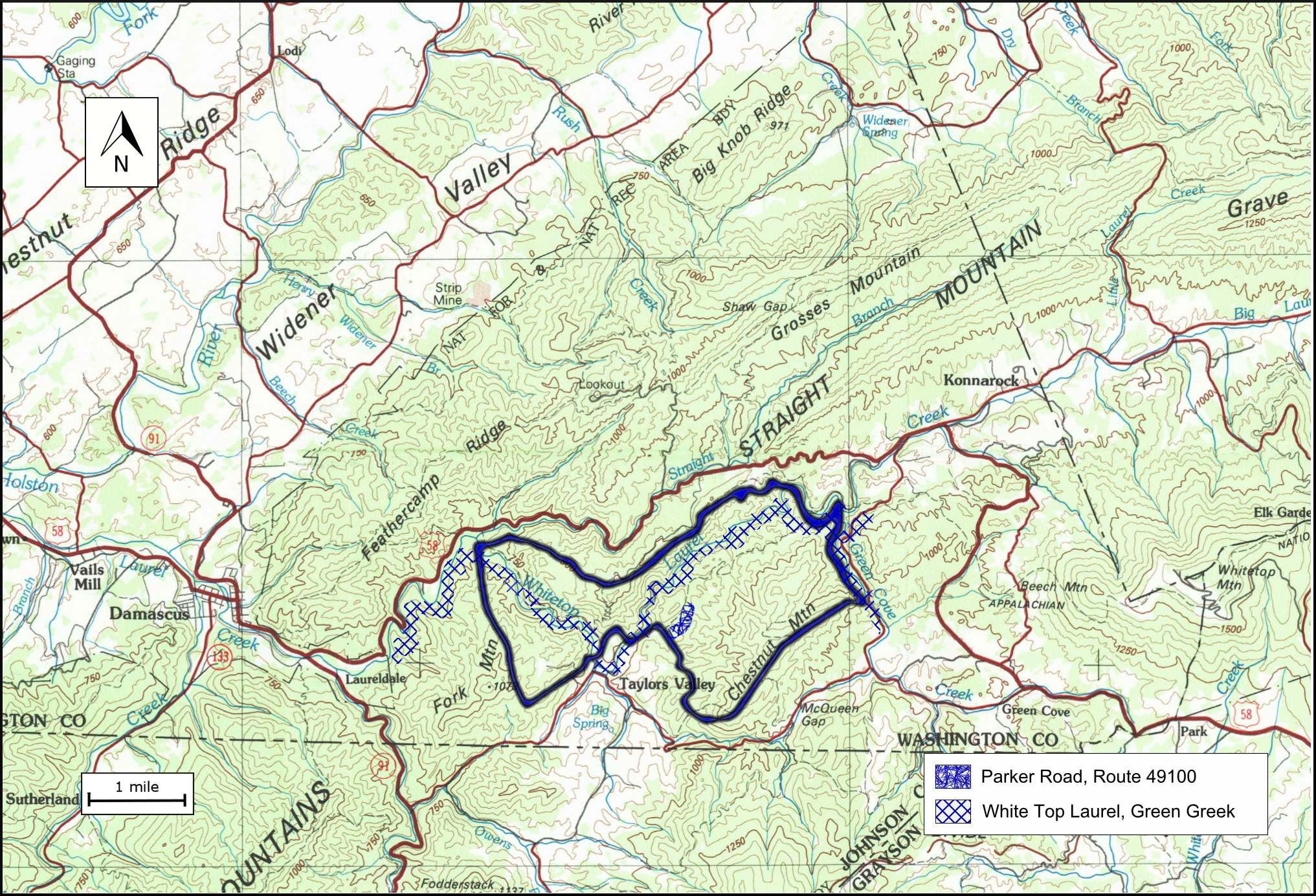 Boundary of the Whitetop Laurel wildland in the Jefferson National Forest as identified by the Wilderness Society